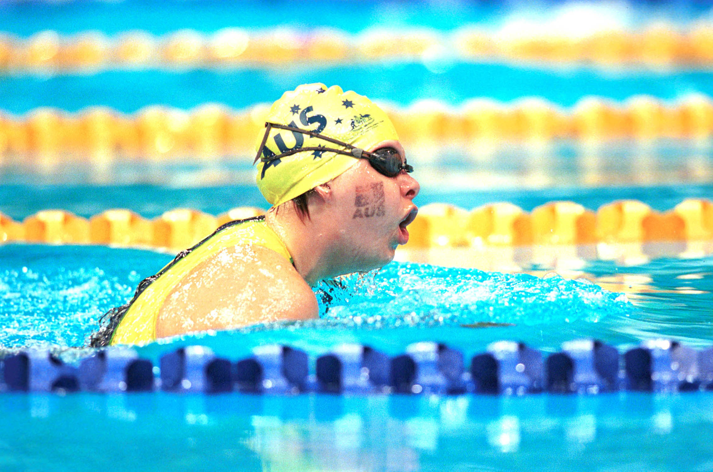 Action shot of Australian swimmer Lucy Williams during competition at the 2000 Sydney Paralympic Games